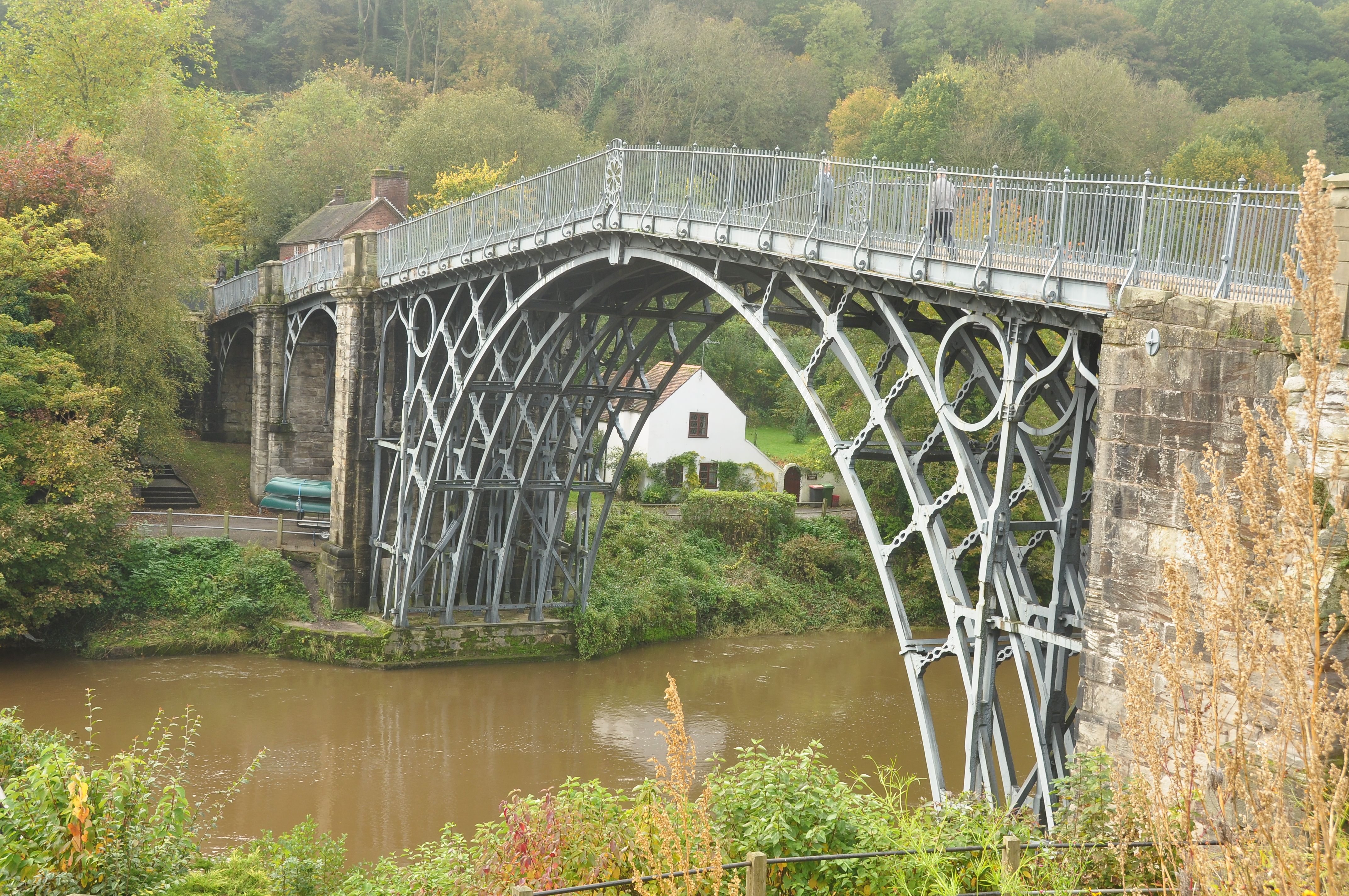 The Iron Bridge